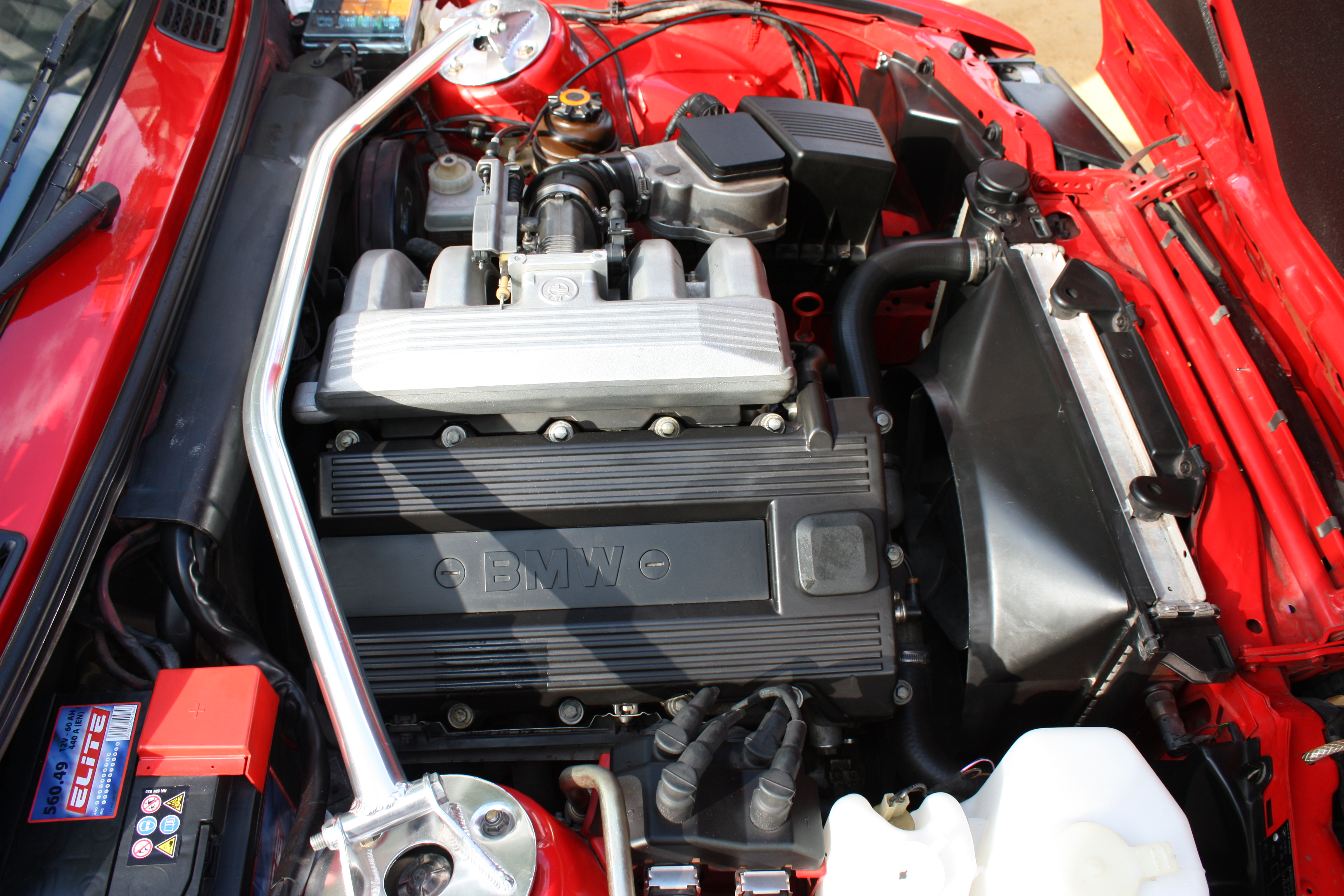 M42 of a BMW E30 318is